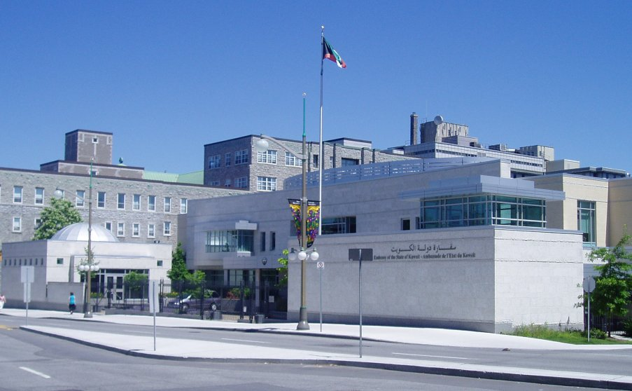 Taken by SimonP in July 2005